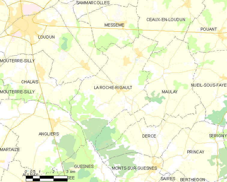 Map of French municipality La Roche-Rigault